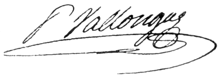 Signature of french general Joseph Sécret Pascal-Vallongue (1763-1806)